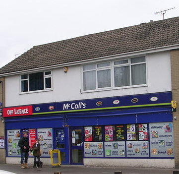 Description